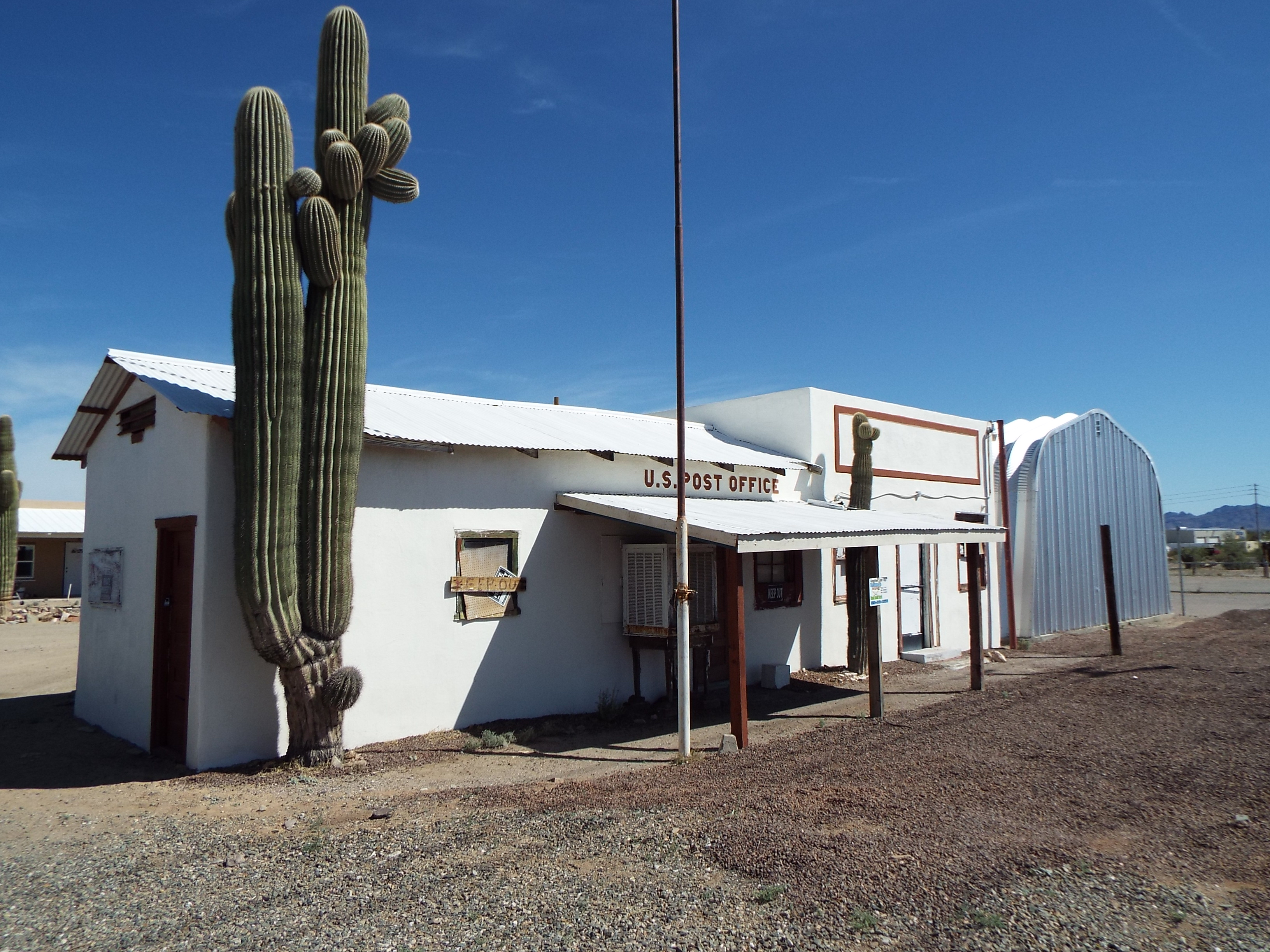 Abandoned Post Office built in 1910 in Main Street in Quartzsite, Az.